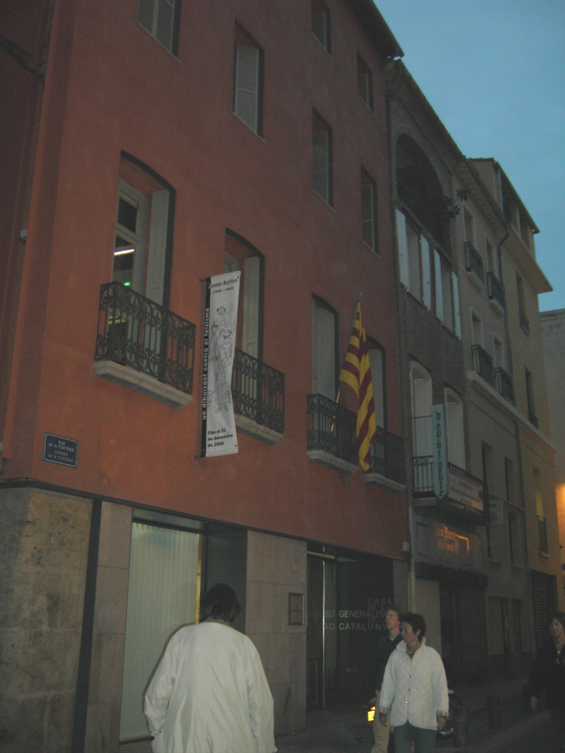 Generalitat of Catalonia delegation in Perpinyà